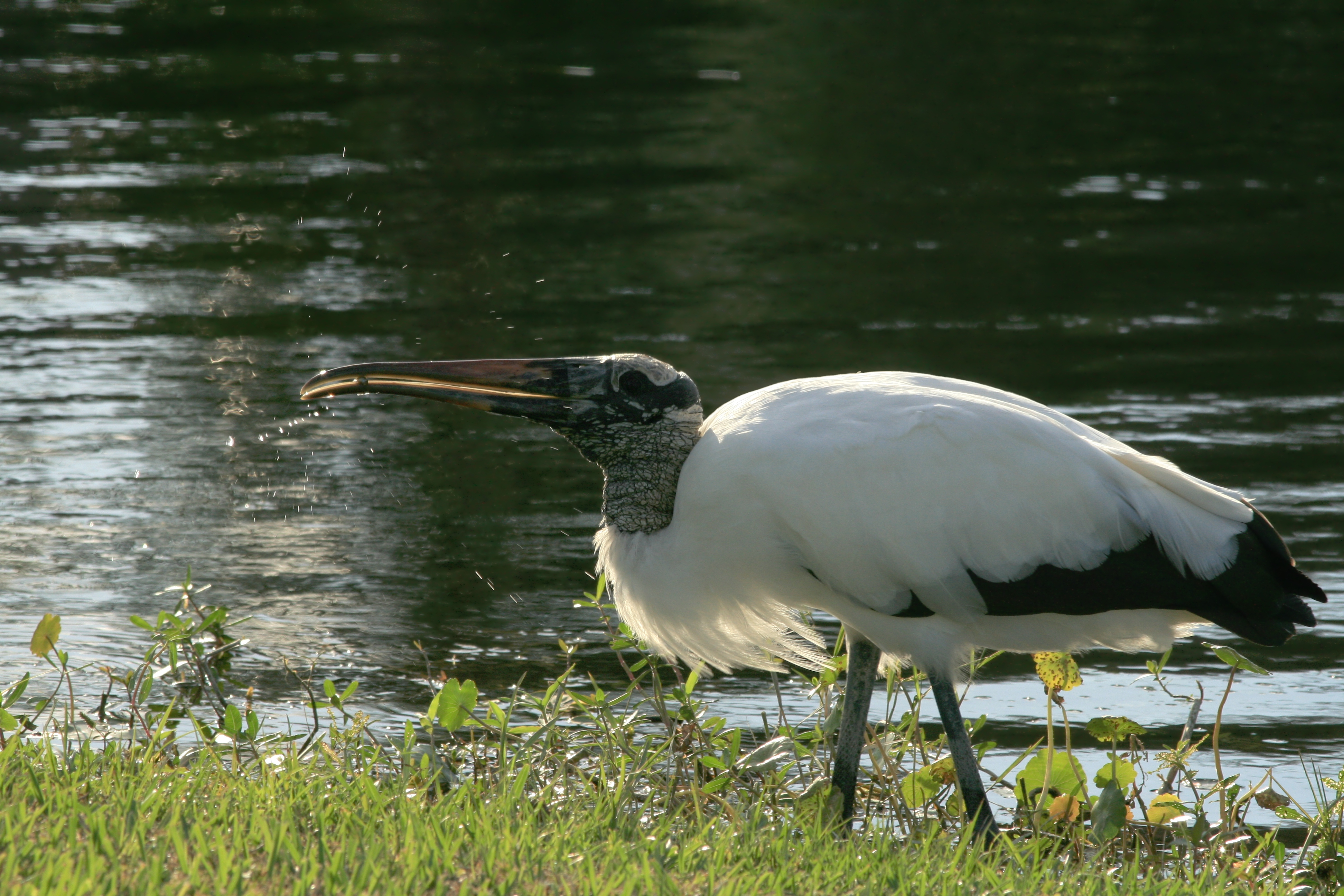 Wood stork with a small fish. Tradewinds Park, Coconut Creek, Florida.